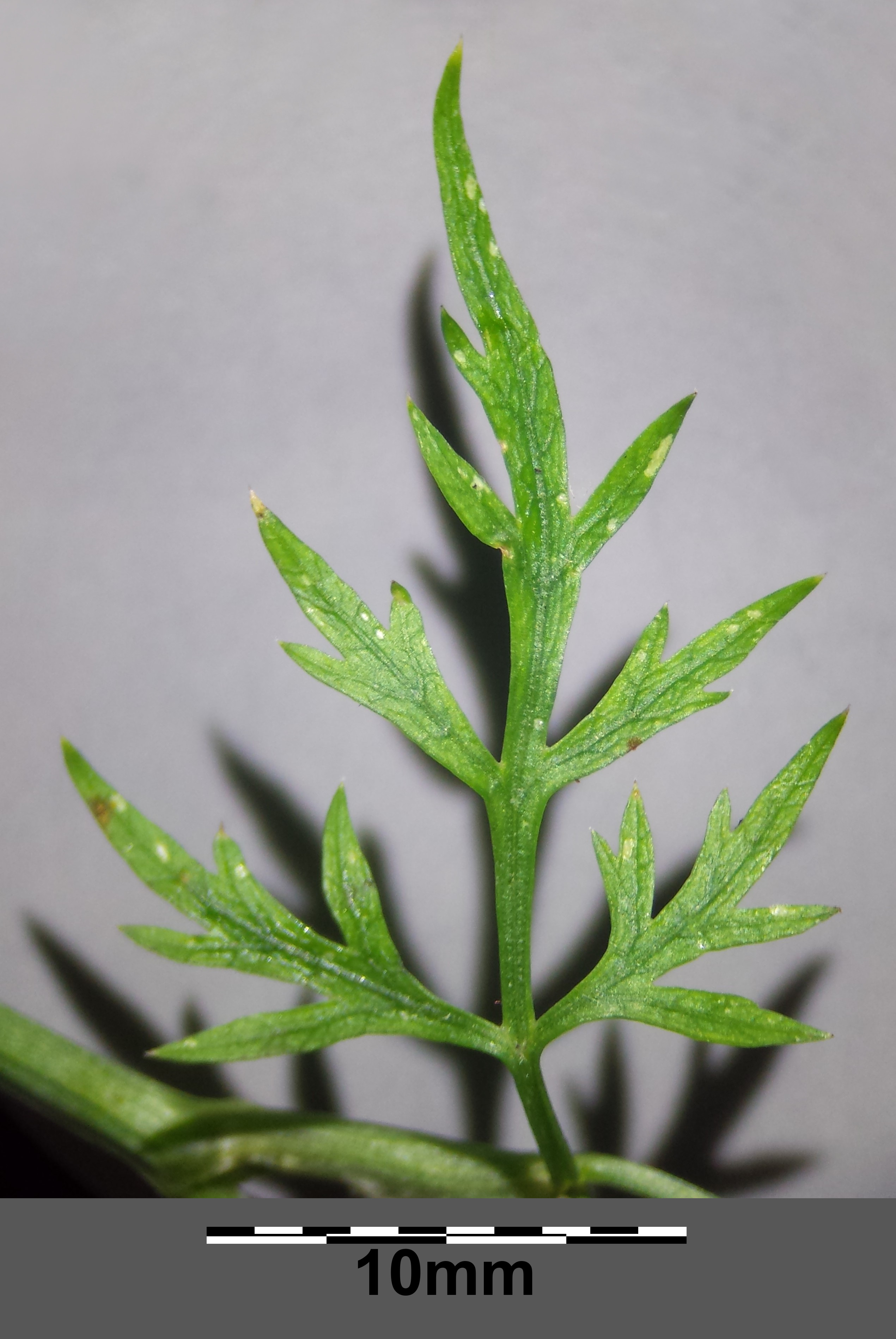 Leaflet Taxonym: Aethusa cynapium subsp. elata ss Fischer et al. EfÖLS 2008 ISBN 978-3-85474-187-9 Location: Rohrwald, district Korneuburg, Lower Austria - ca. 260 m a.s.l. Habitat: wet wood